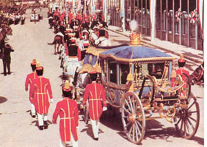 2500 year celebration of the Persian Empire